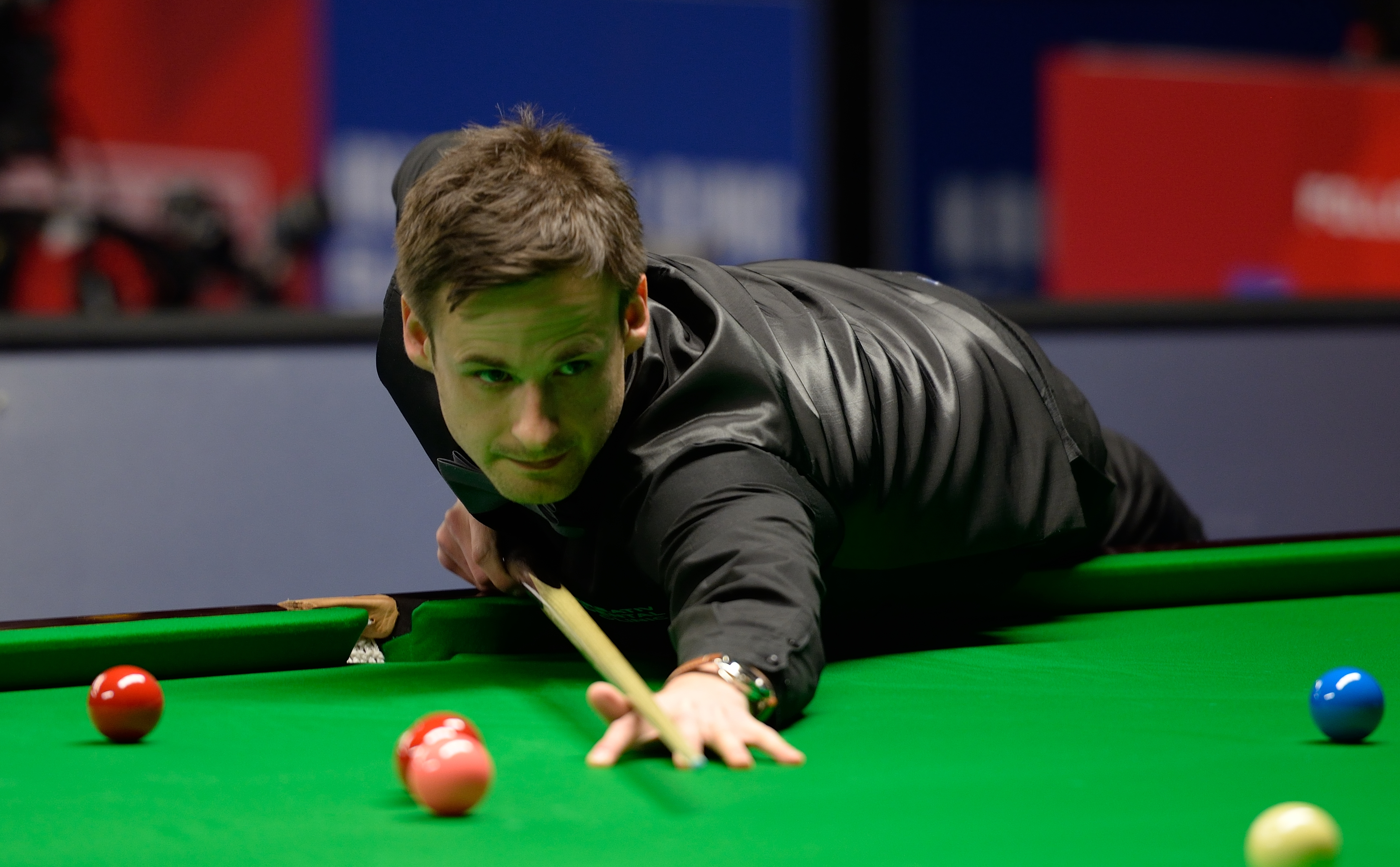 Picture taken in Berlin during the Snooker German Masters in 2015. David Gilbert.